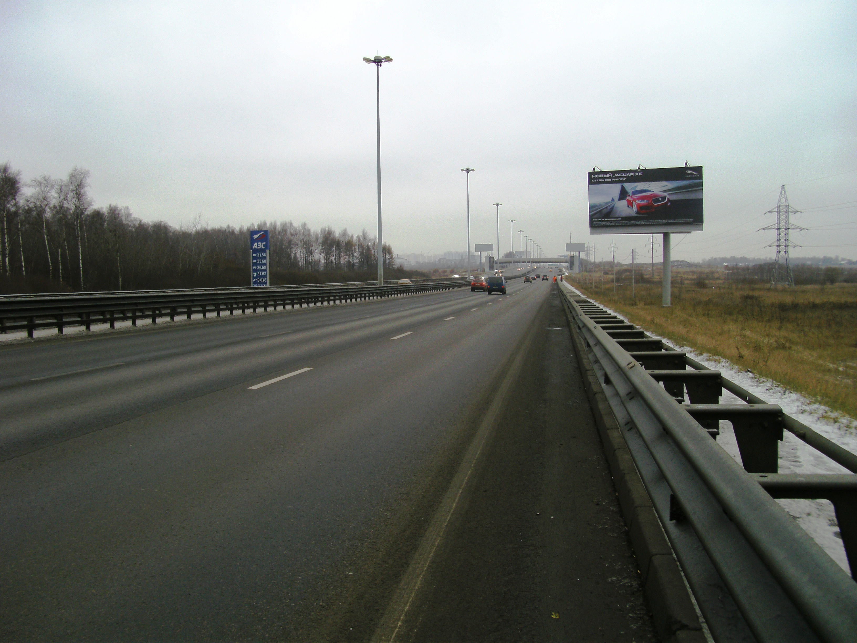 Mezhdunarodnoe highway in Moscow